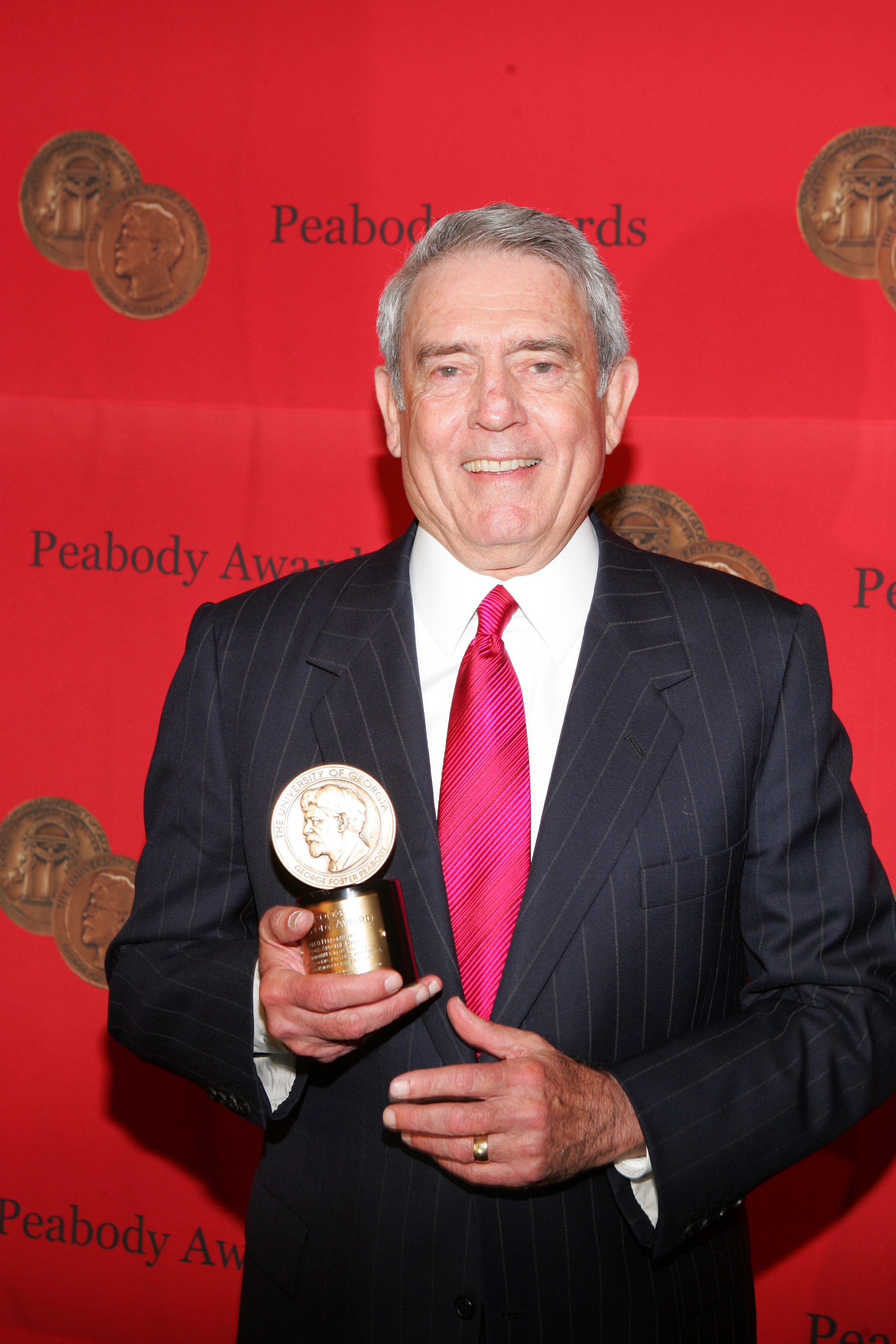 Dan Rather at the 64th Annual Peabody Awards Luncheon Waldorf=Astoria Hotel New York, NY USA May 16, 2005